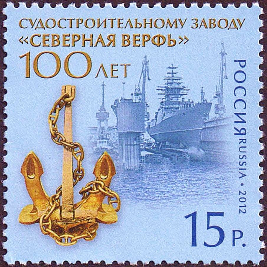 The centenary of the Russian shipbuilding enterprise Severnaya Verf (Northern Shipyard; founded in 1912 as the Putilov Shipyard of Putilov Factories Сompany).The stamp features an anchor and a ship in a dock.The stamp of Russia, 15.00 Rubles, 1 October 2012, PTC Marka Catalogue No 1638. Coated paper. Offset printing, multicoloured. Perforation: comb 11½:11½. Size of the stamp: 37×37 mm. Print run: 333,000.